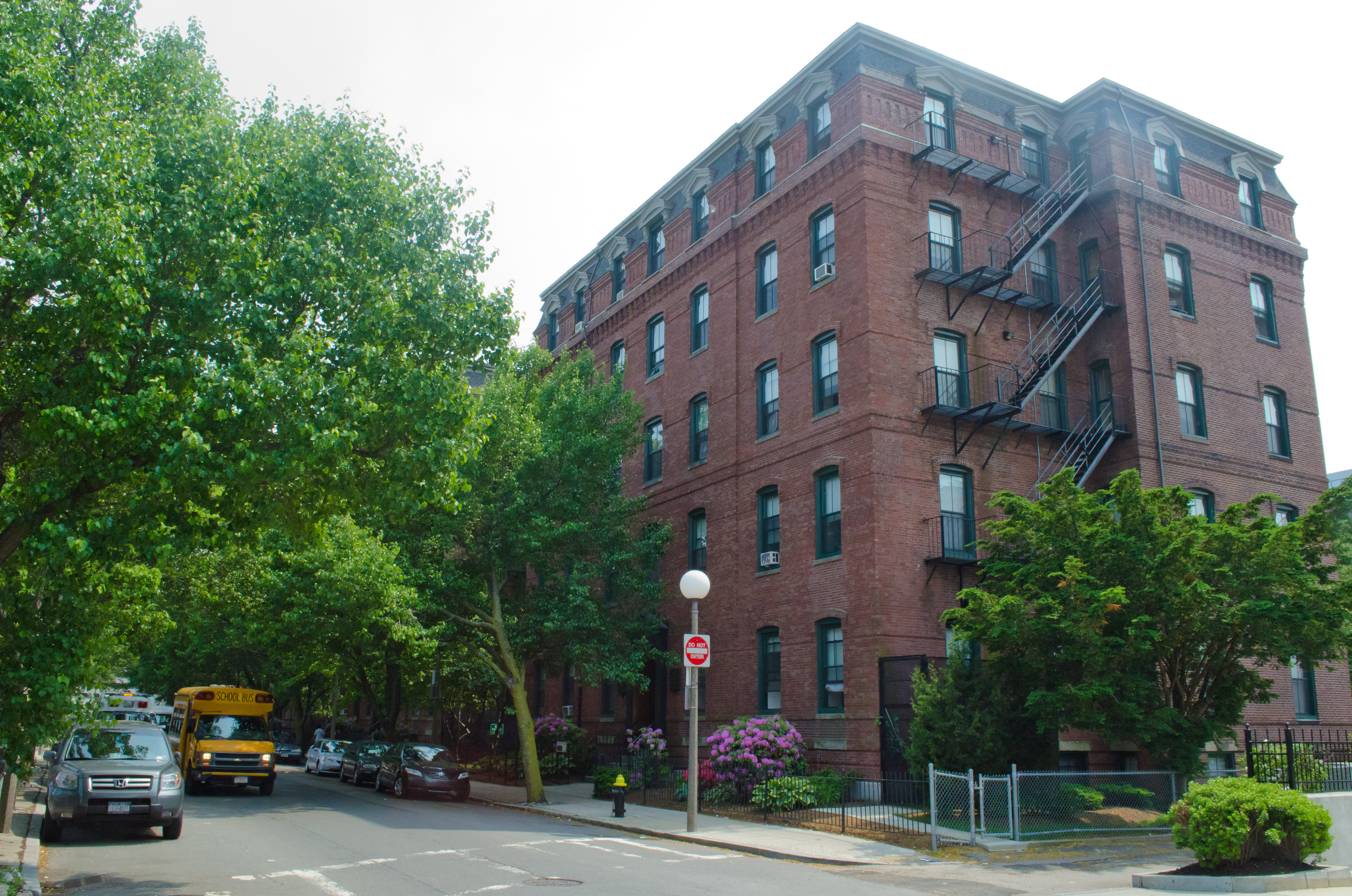 The Lawrence Model Lodging Houses on E. Canton Street in Boston, Massachusetts. The building in the foreground is #109.